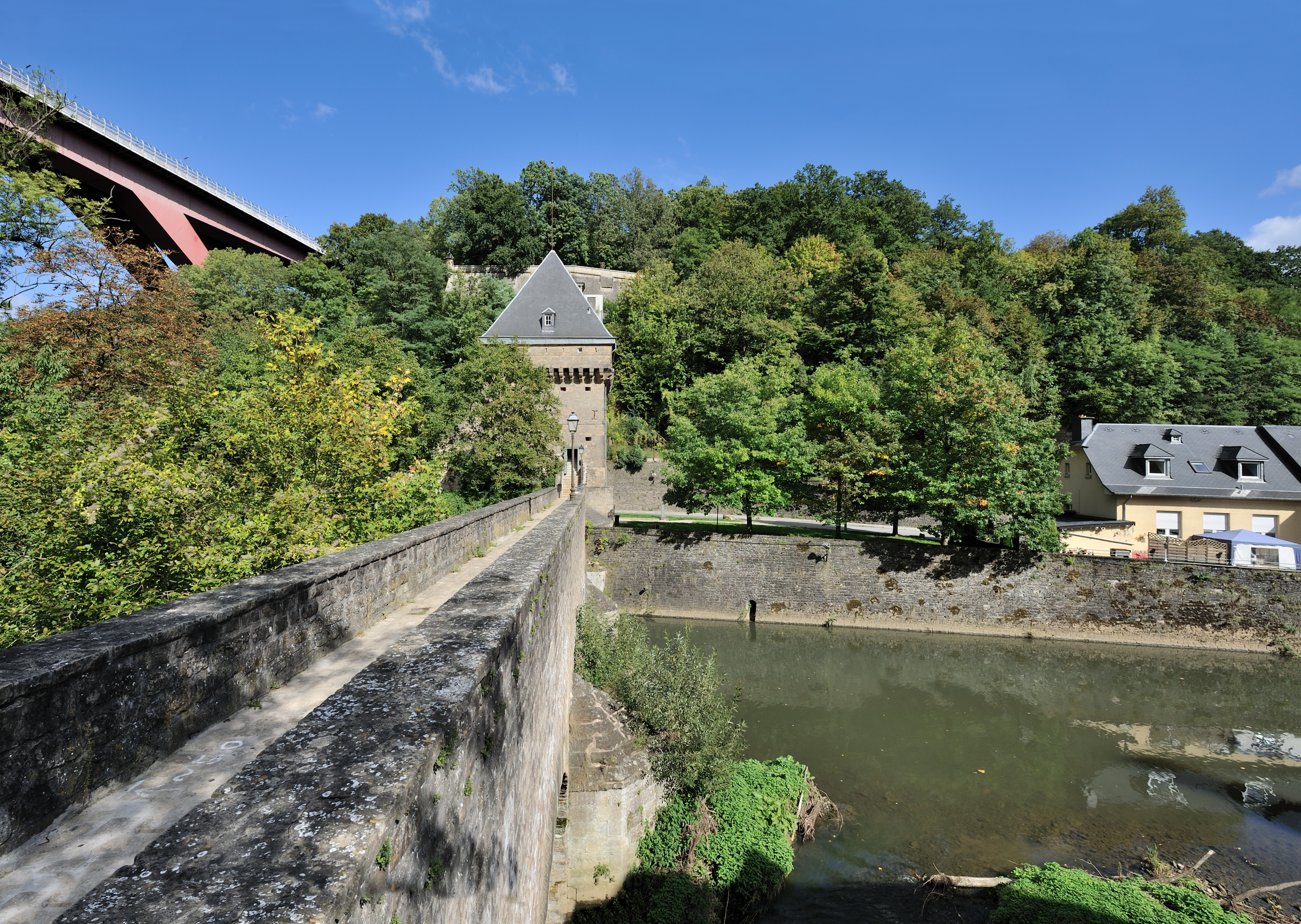 Luxembourg City, Pfaffenthal, two bridges. (1) the bridge called Béinchen, erected around 1786, part of the defensive walls of the ancient Luxembourg fortress. (2) Grande-Duchesse-Charlotte-Bridge, inaugurated in 1965. In the foreground: the Alzette river. The place shown is part of a World Heritage Site.